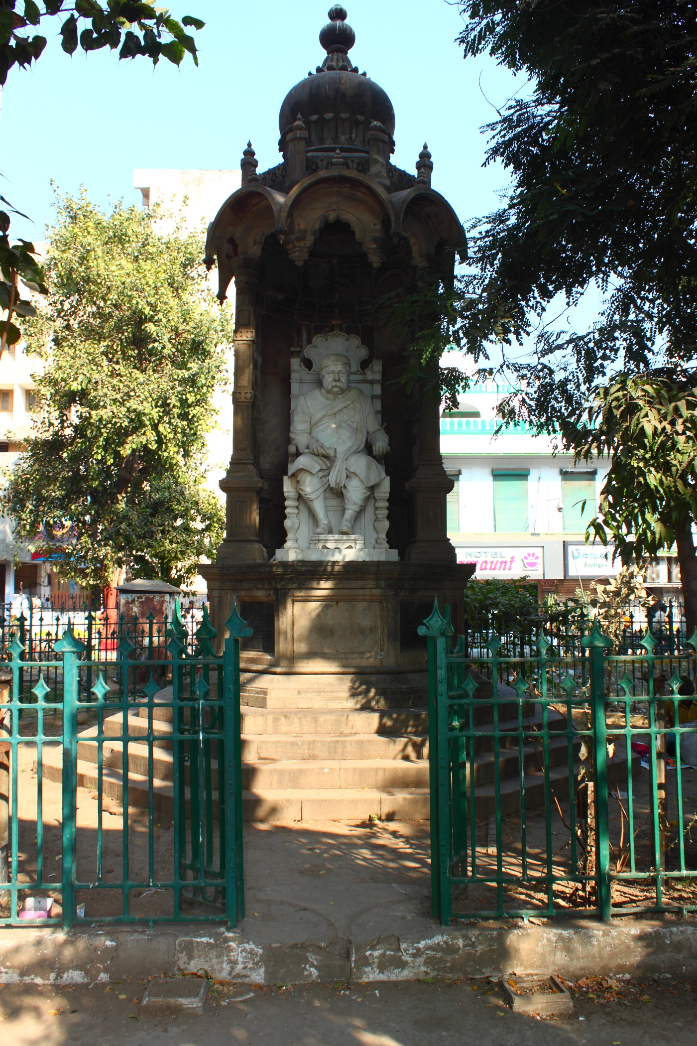 An stone idol of Chinubhai M. Ranchodlal. He was the pioneer industrialist of Ahmedabad who started the first ever industry in Gujarat.